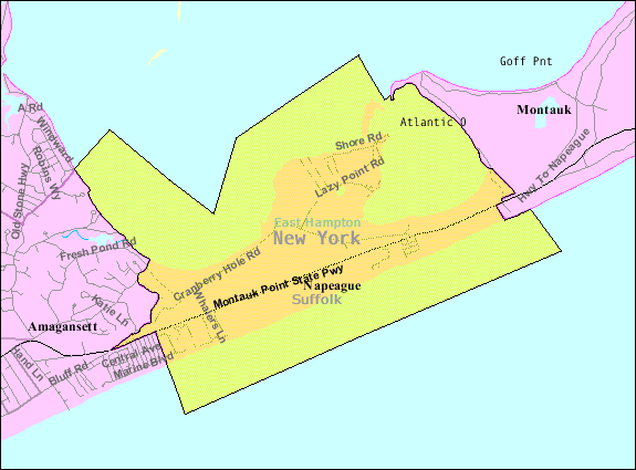 U.S. Census 2000 reference map for Napeague